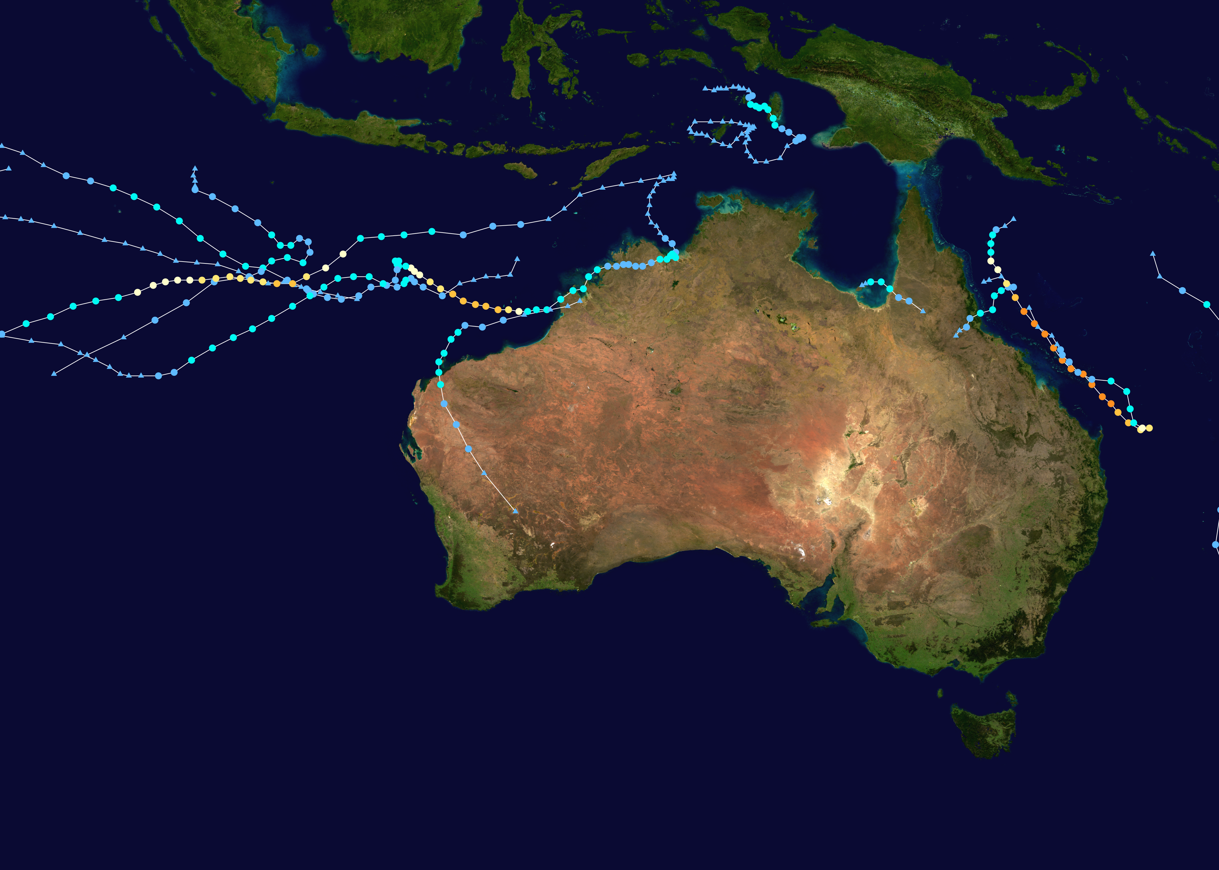 This map shows the tracks of all tropical cyclones in the 2008-09 Australian region cyclone season. The points show the location of each storm at 6-hour intervals. The colour represents the storm's maximum sustained wind speeds as classified in the Saffir-Simpson Hurricane Scale (see below), and the shape of the data points represent the type of the storm. Saffir–Simpson scale Tropical depression≤38 mph≤62 km/h Category 3111–129 mph178–208 km/h Tropical storm39–73 mph63–118 km/h Category 4130–156 mph209–251 km/h Category 174–95 mph119–153 km/h Category 5≥157 mph≥252 km/h Category 296–110 mph154–177 km/h Unknown Storm type Tropical cyclone Subtropical cyclone Extratropical cyclone / Remnant low / Tropical disturbance / Monsoon depression